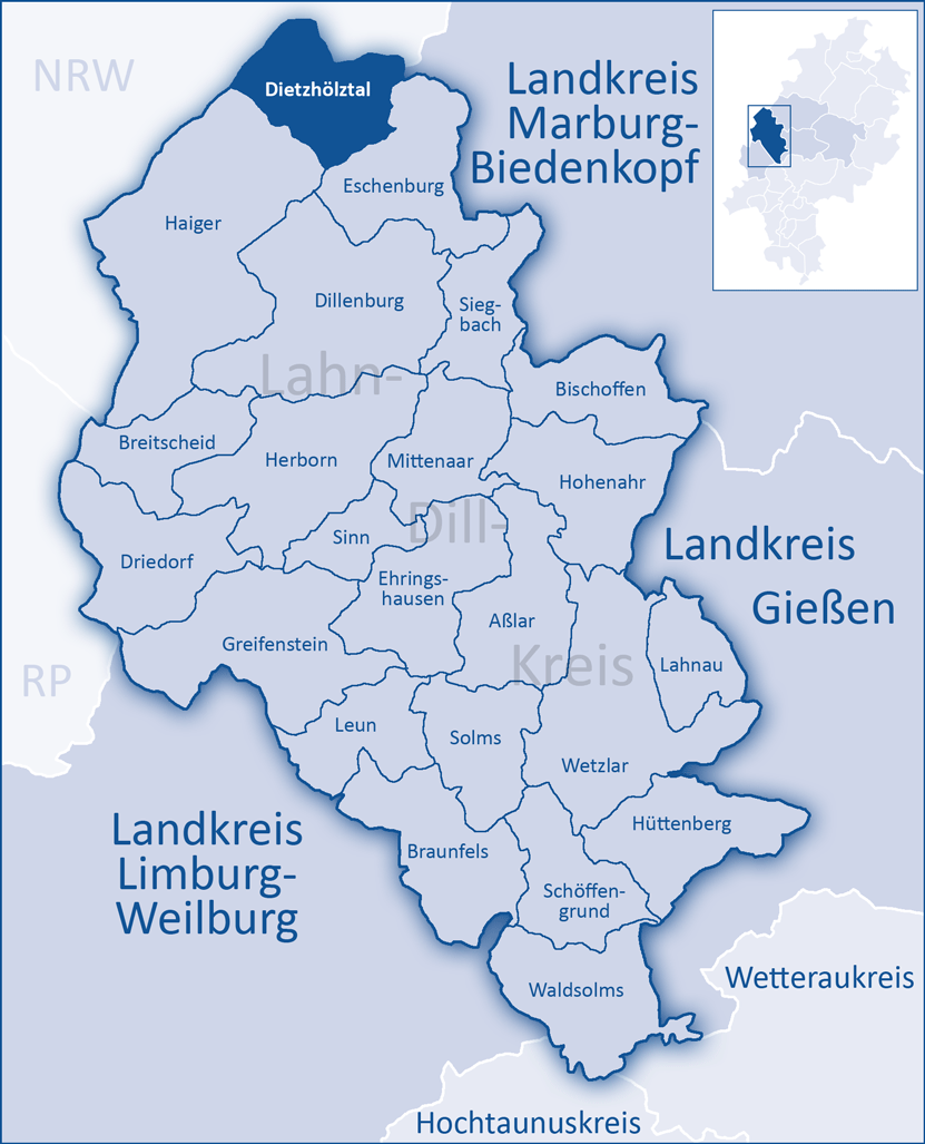 The map shows a district in the area of Lahn-Dill-Kreis